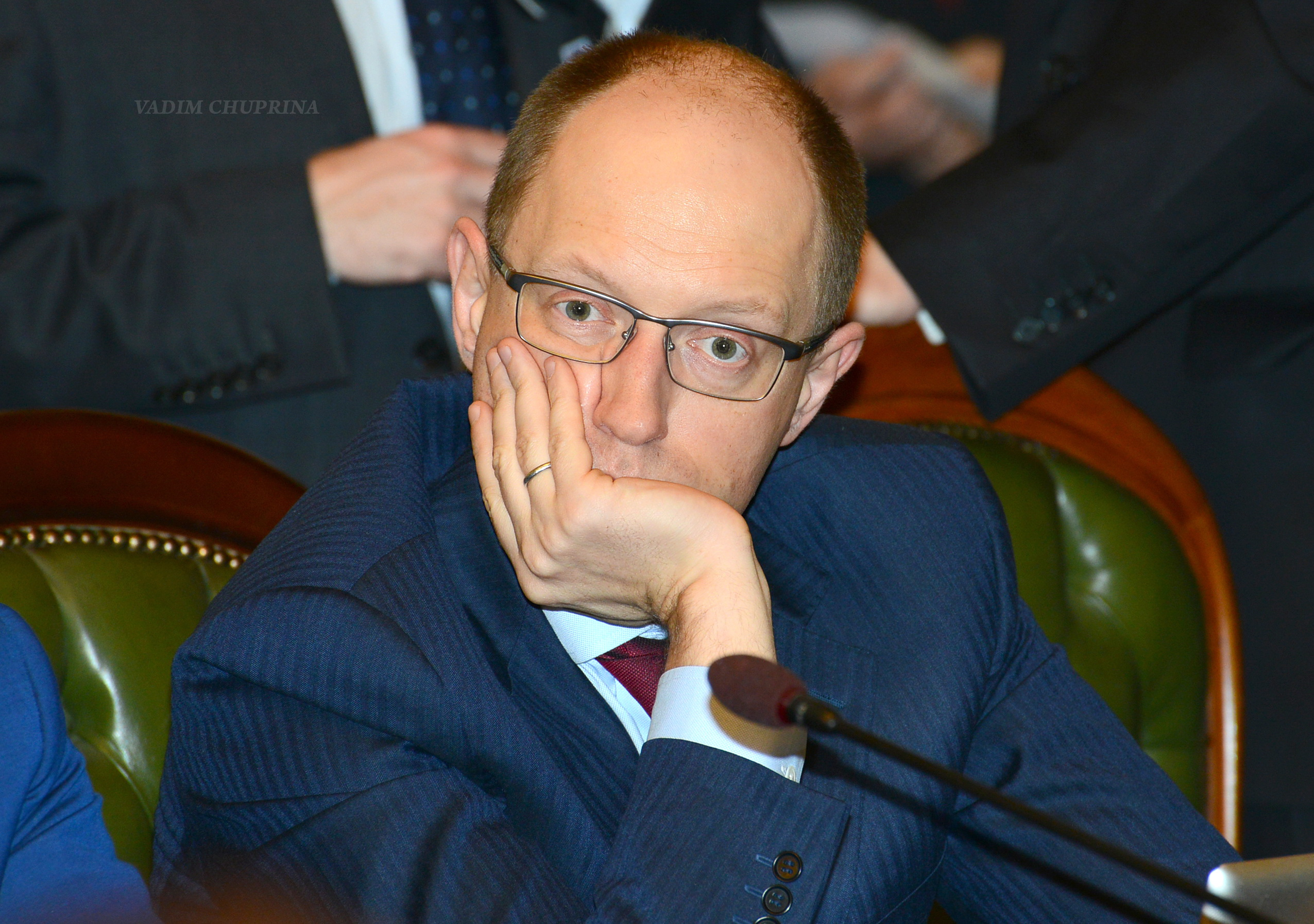 Ukrainian politicians VADIM CHUPRINA